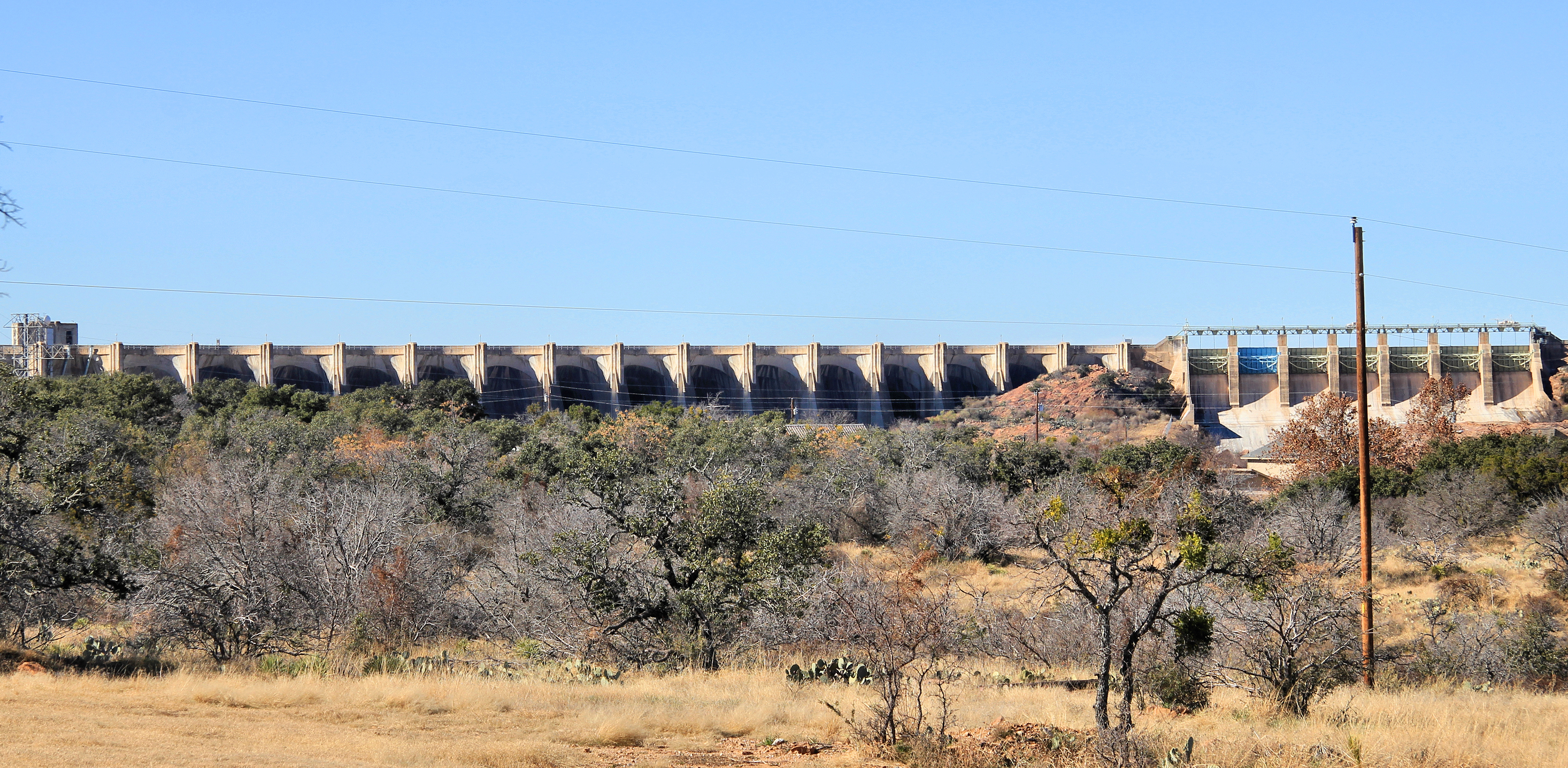 Buchanan Dam, west of Burnet, Texas, United States.